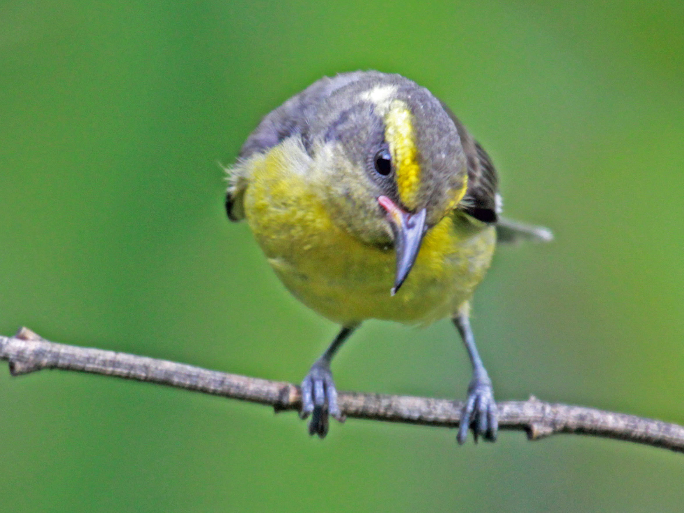 A juvenile bananaquit (Coereba flaveola) on St. John, Virgin Islands